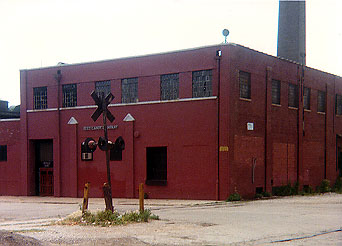 It's Burke, Tom photo and anyone interested in the history of Reed Candy or the railroads of Chicago may use it. This picture shows part of the closed Reed Candy plant in Chicago at the southeast corner of North Lakewood Avenue and West Fletcher Street. Photo taken in April of 1985 by Tom Burke. Note the railroad tracks in the foreground in Lakewood Avenue which were used by the Milwaukee Road to make deliveries to Reed of raw ingredients.